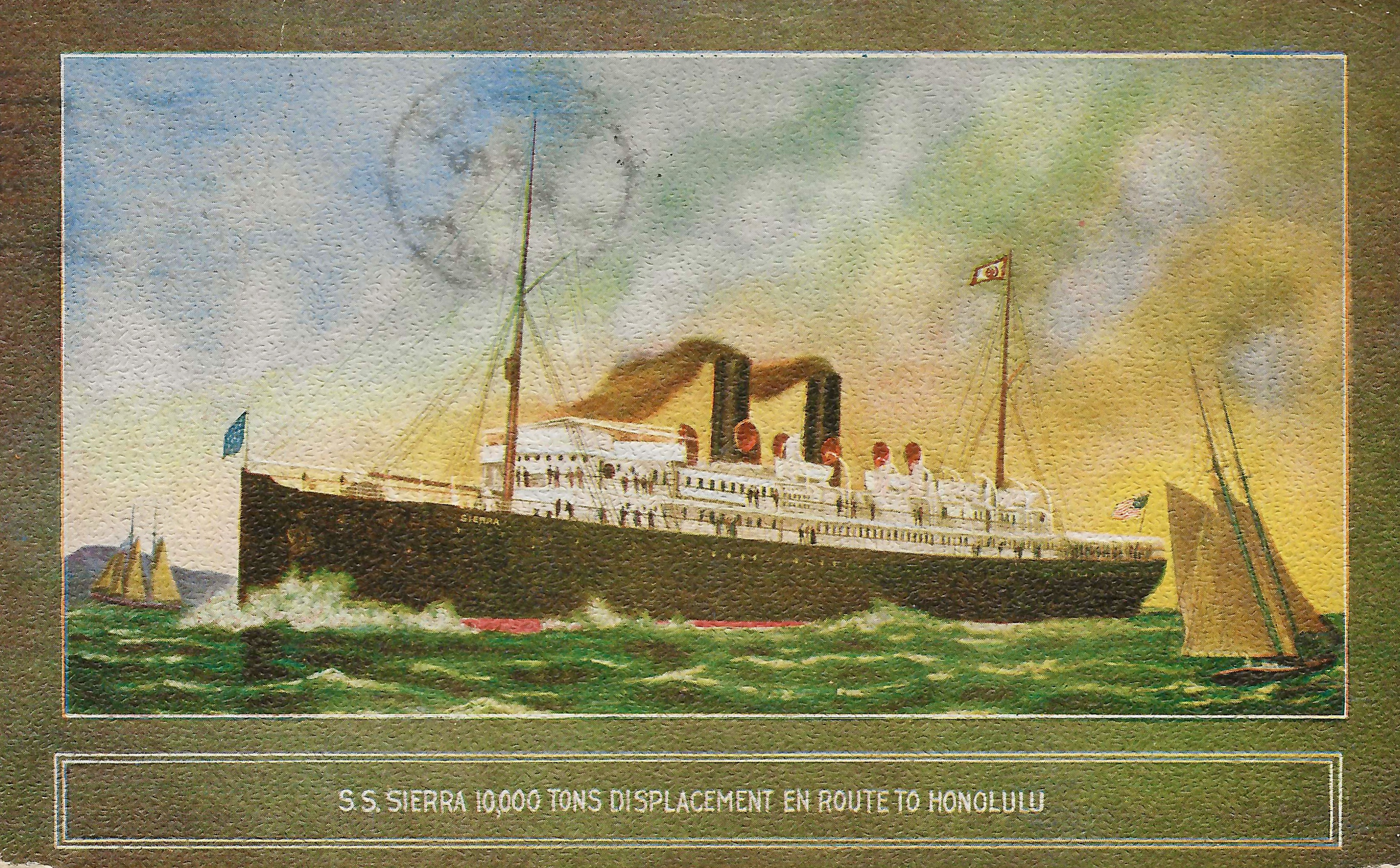 Postcard of the SS Sierra cruise ship en route to Honolulu Hawaii ca. 1912